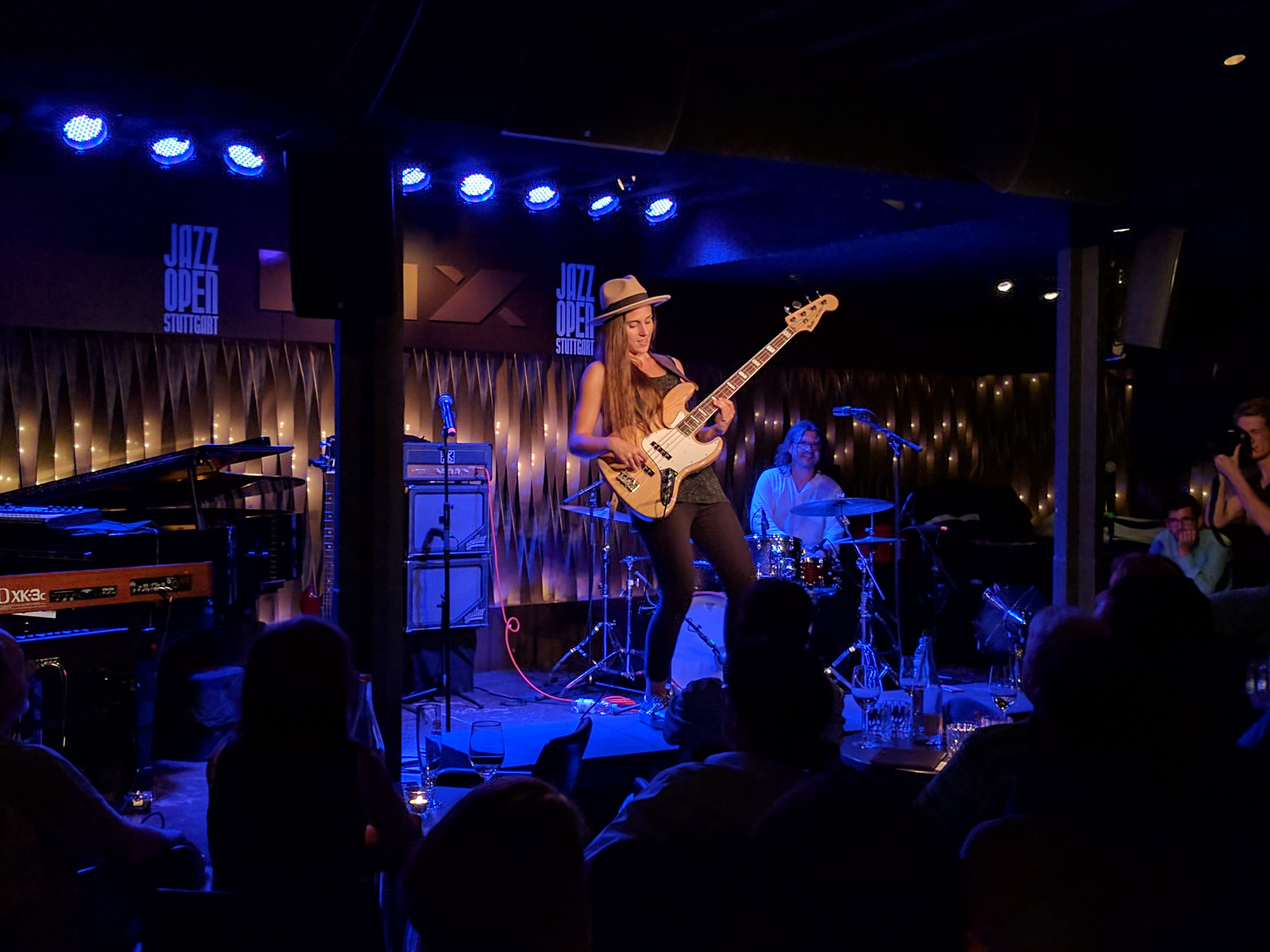 The bassist player Kinga Glyk, on 12 July 2017 live at the BIX Jazzclub in Stuttgart